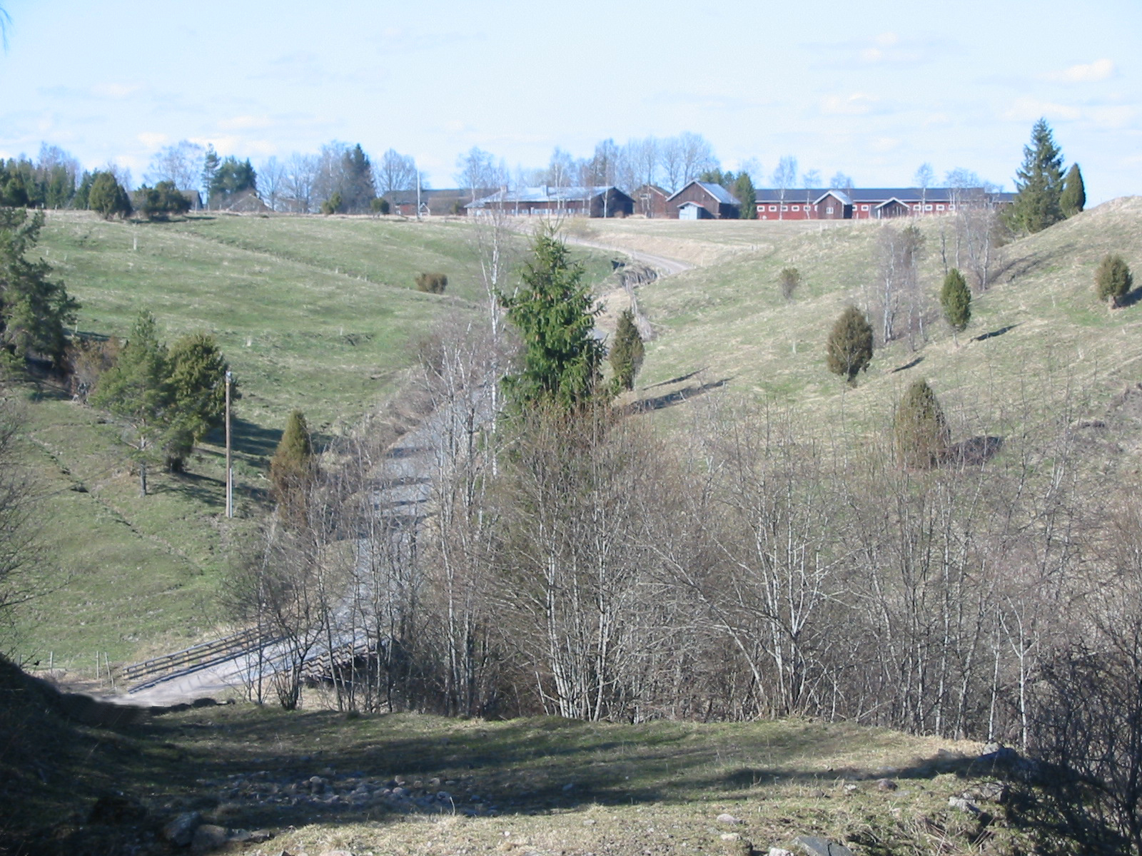 Talvisilta village in Somero, Finland